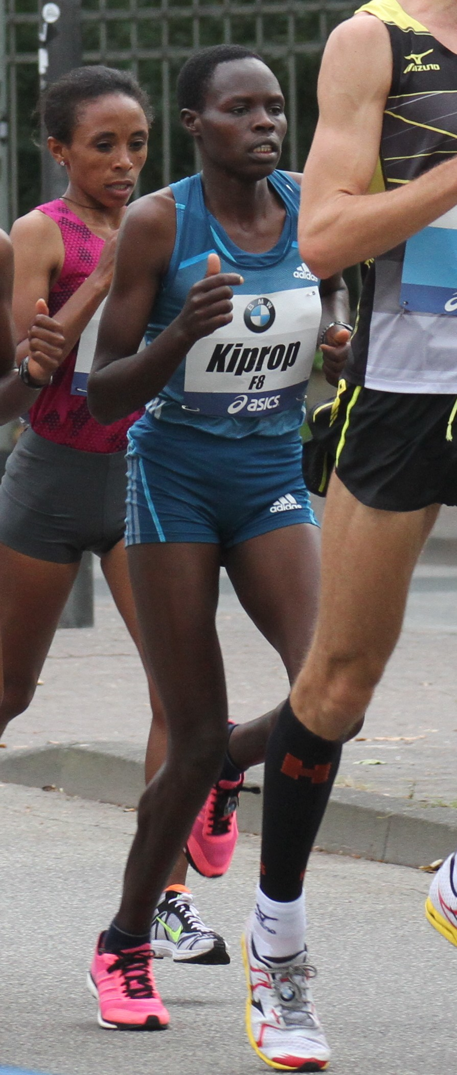 Helah Kiprop during the 2014 Frankfurt Marathon